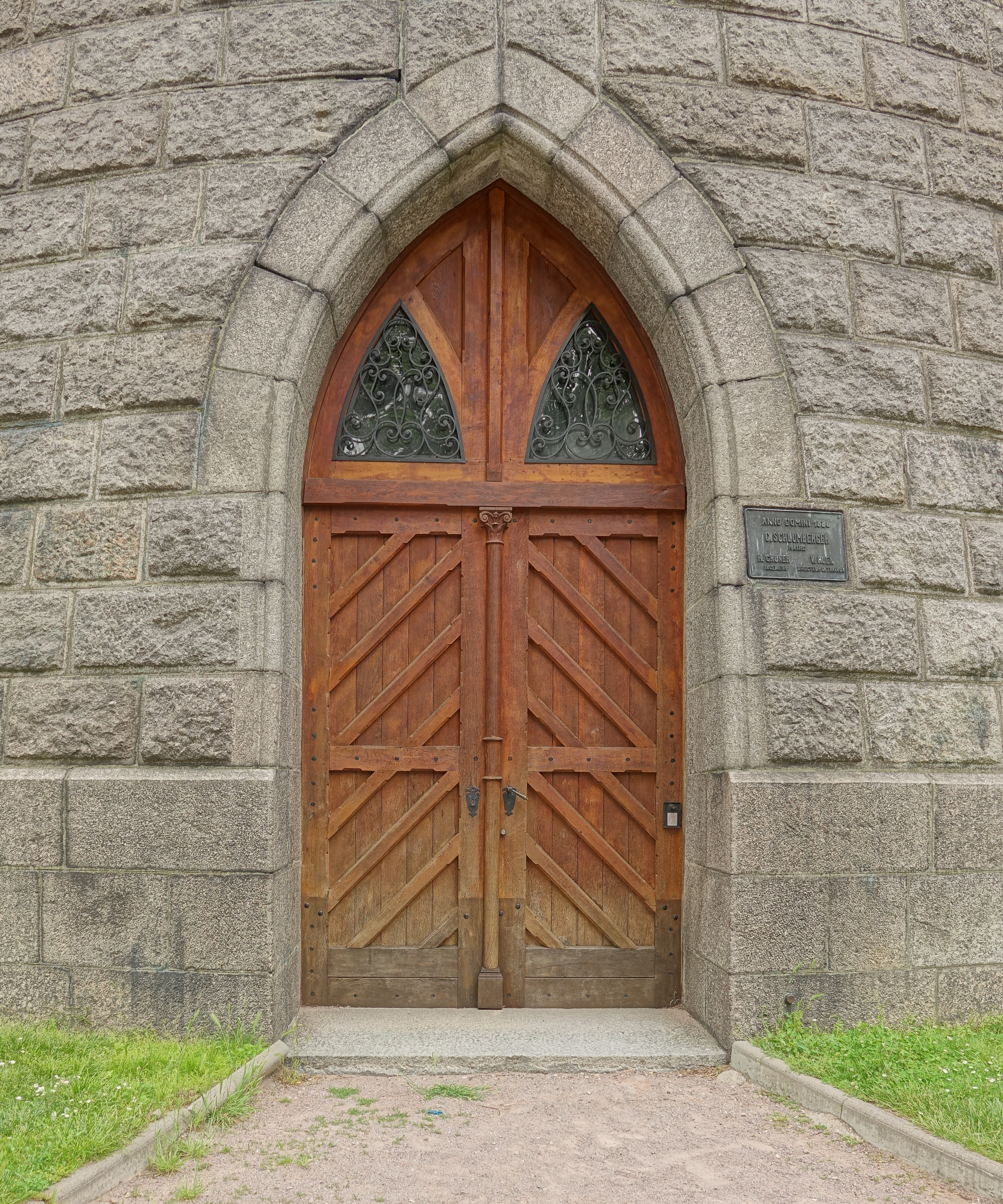 Gate of water tower in Colmar (Haut-Rhin, France).